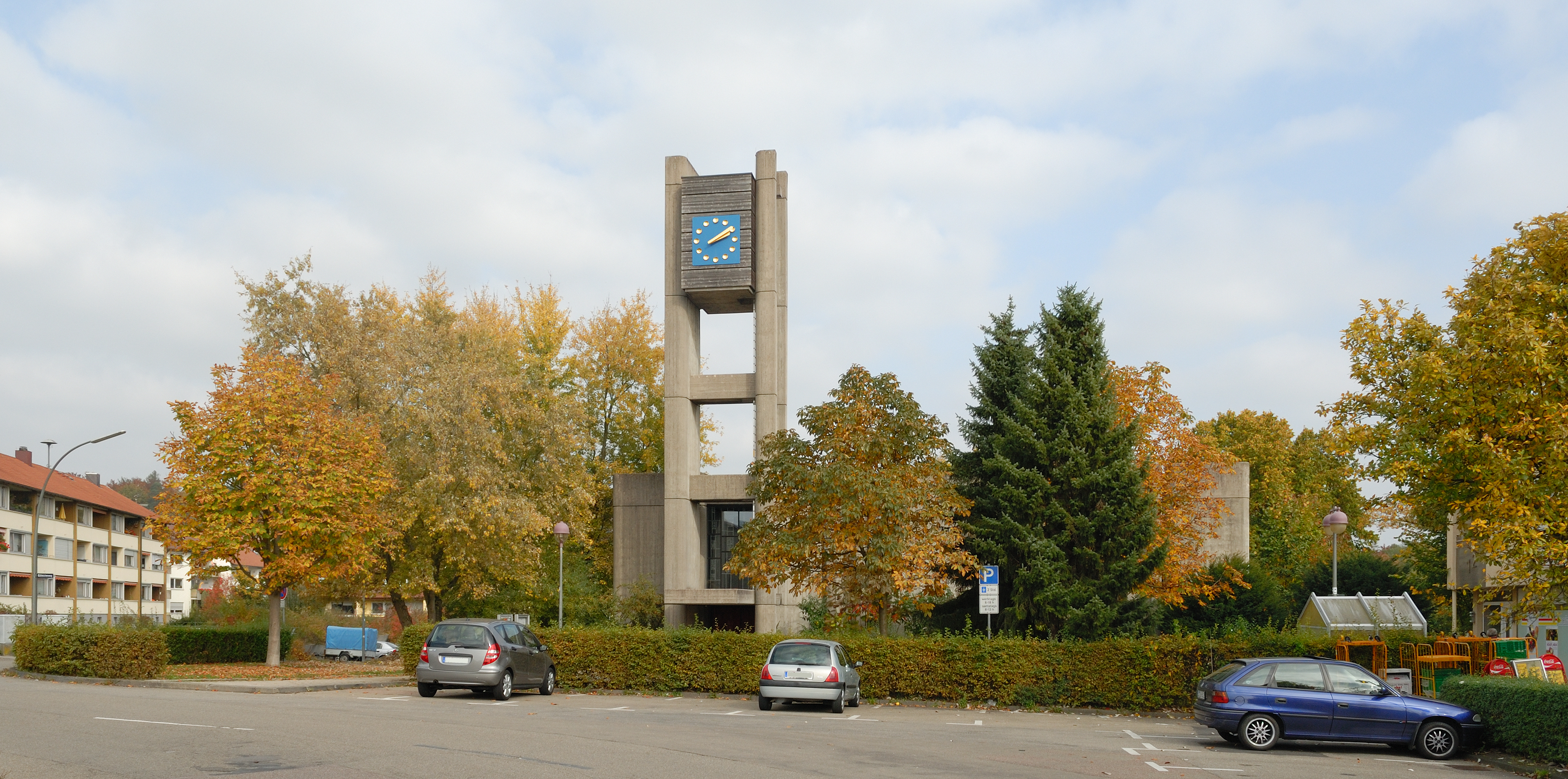 Paul Gerhardt church at Teckplatz in Plochingen-Stumpenhof.